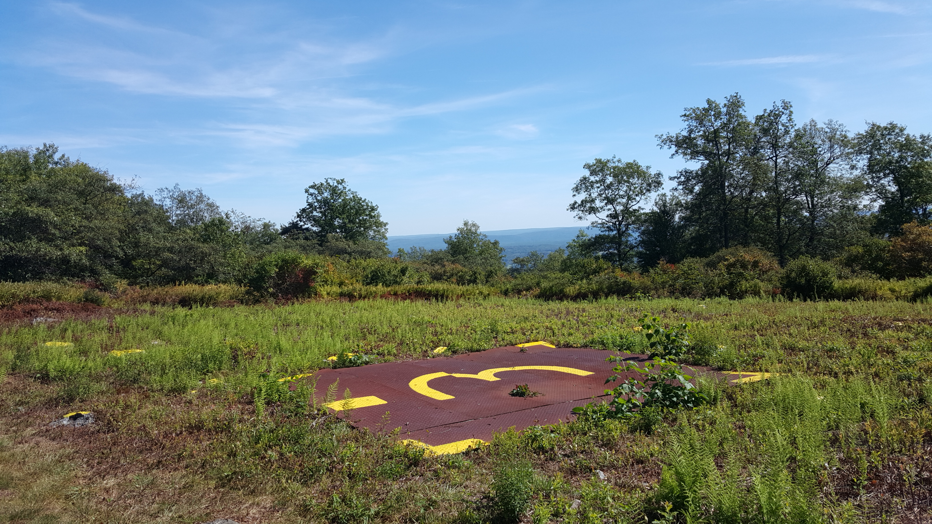 NJFFS Helispot 3 Mount Tammany Fire Road Kittatinny Mountain 40.993637/-75.056083